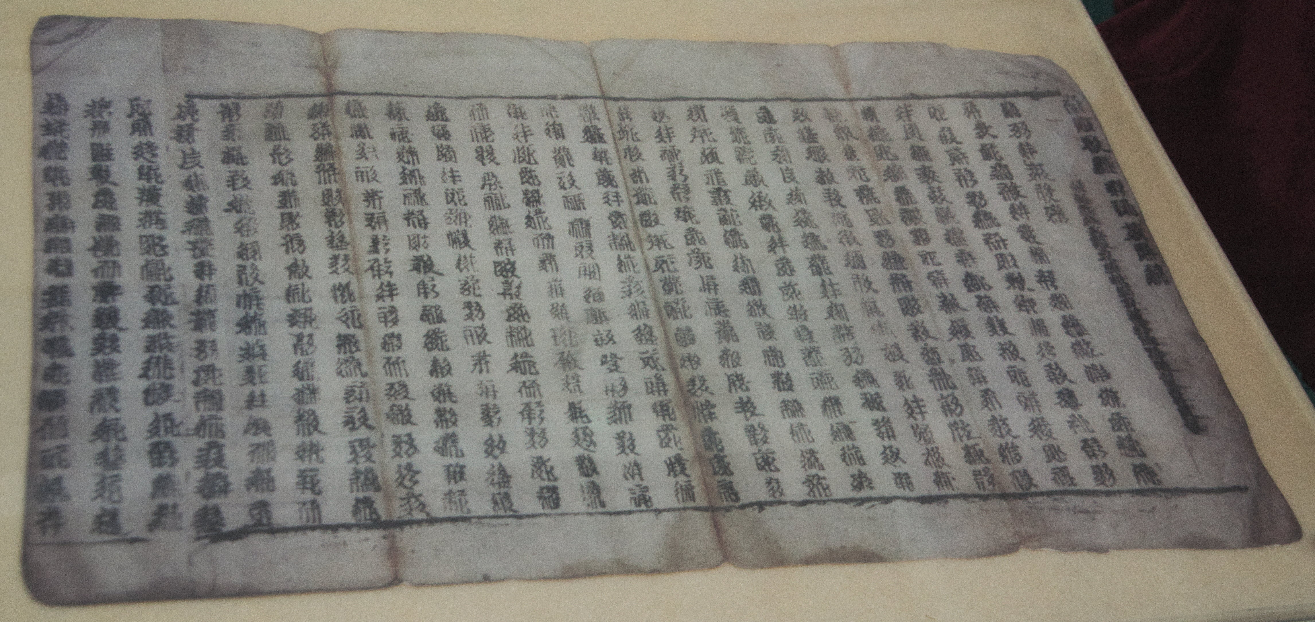 Printing in pottery (argile) movable type from Xixia around the middle of the 12th century. This was found in Xinhua Xiang (新华乡); Wuwei City, Gansu province, North-West of China. The piece is at the china printing museum in Beijing.